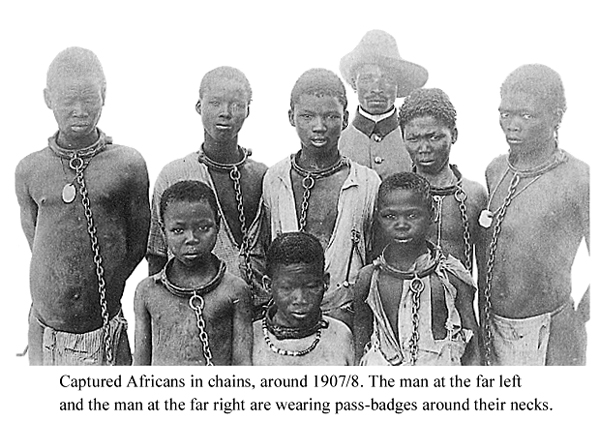 P. 47 of "Genocide in German South-West Africa: The Colonial War of 1904-1908 and Its Aftermath", by Jurgen Zimmerer, Joachim Zeller and E. J. Neather, Merlin Press (December 1, 2007)